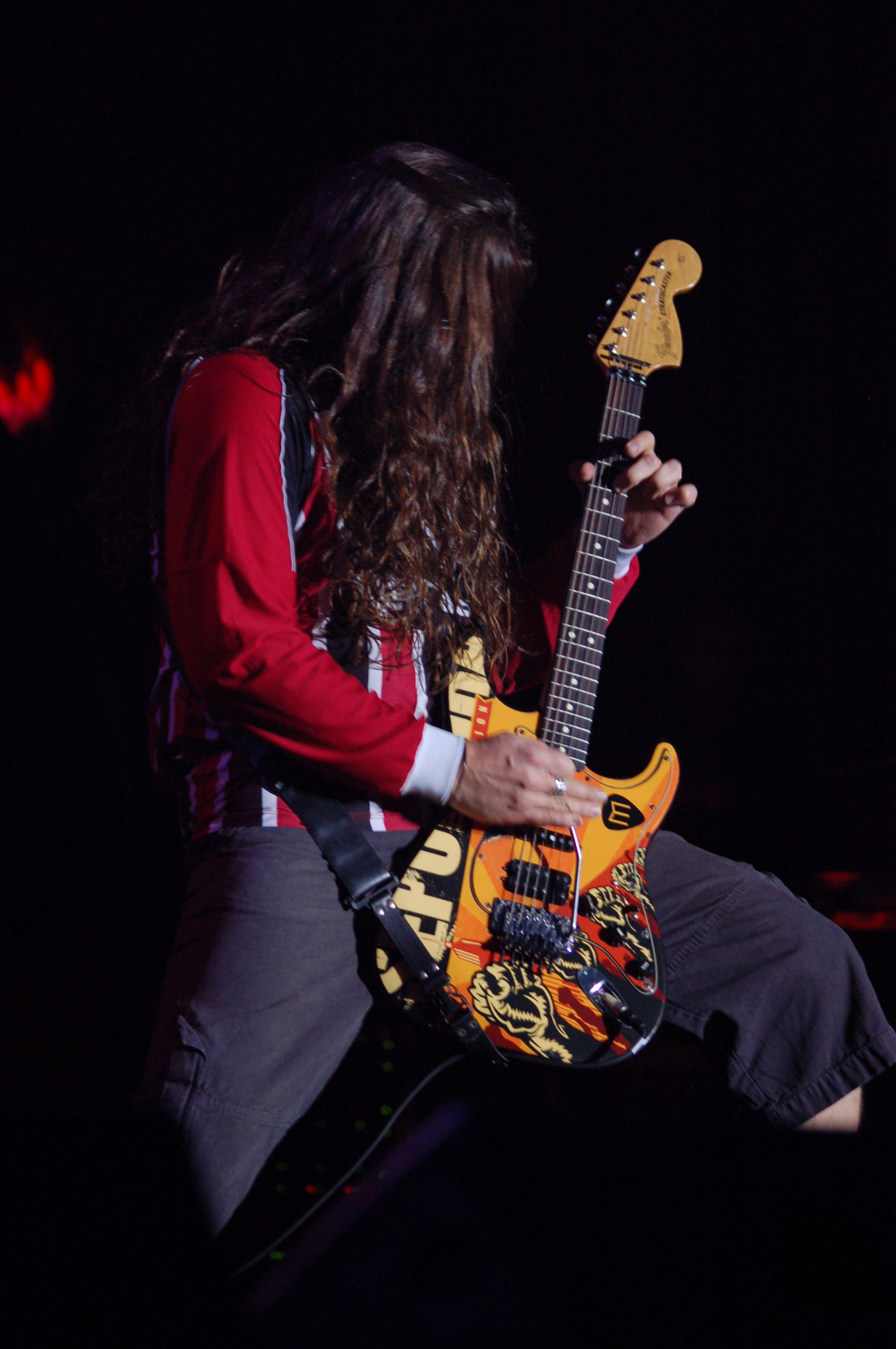 Andreas Kisser from Sepultura during Metalmania 2007 festival